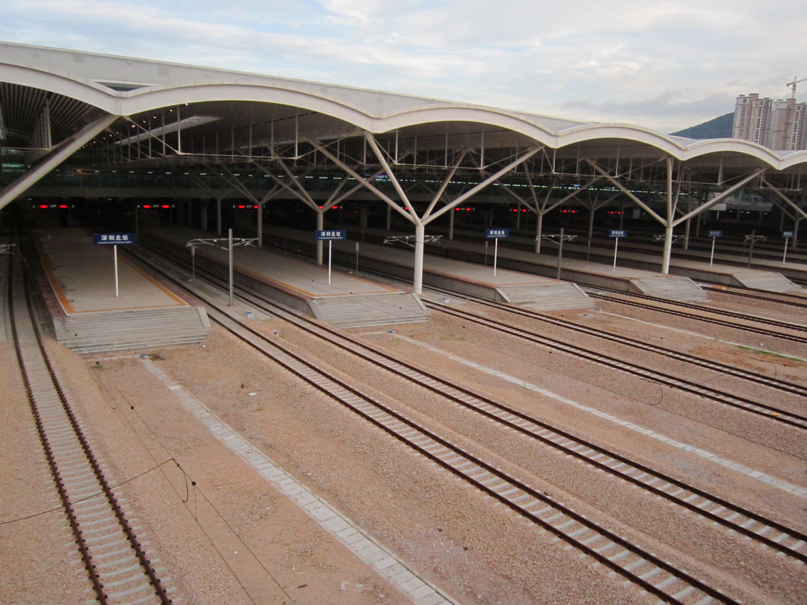 High speed train platforms of Shenzhen North Station